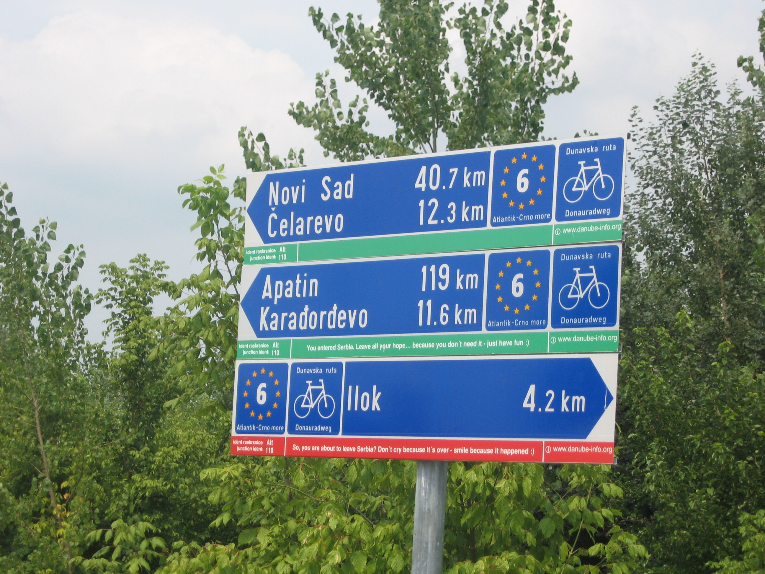 Danube bikeway and EuroVelo 6 signs in Serbia. Biketrip Munich - Istanbul - Zurich